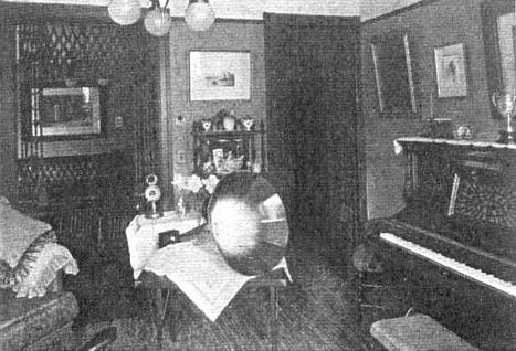 Subscriber home installation for the Wilmington, Delaware Tel-musici service, 1909. he Tel-musici was an early entertainment innovation, which used telephone lines to transmit phonograph recordings to individual households.